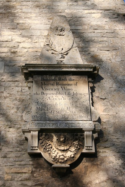 Wing Memorial Delightful Georgian memorial to several members of the Wing family who died in the 18th century